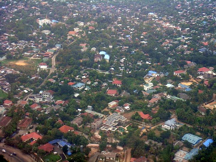 A sky view of Yangon from the planeမြန်မာဘာသာ: ရန်ကုန်မြို့ အပေါ်​စီး​မြင်​ကွင်း